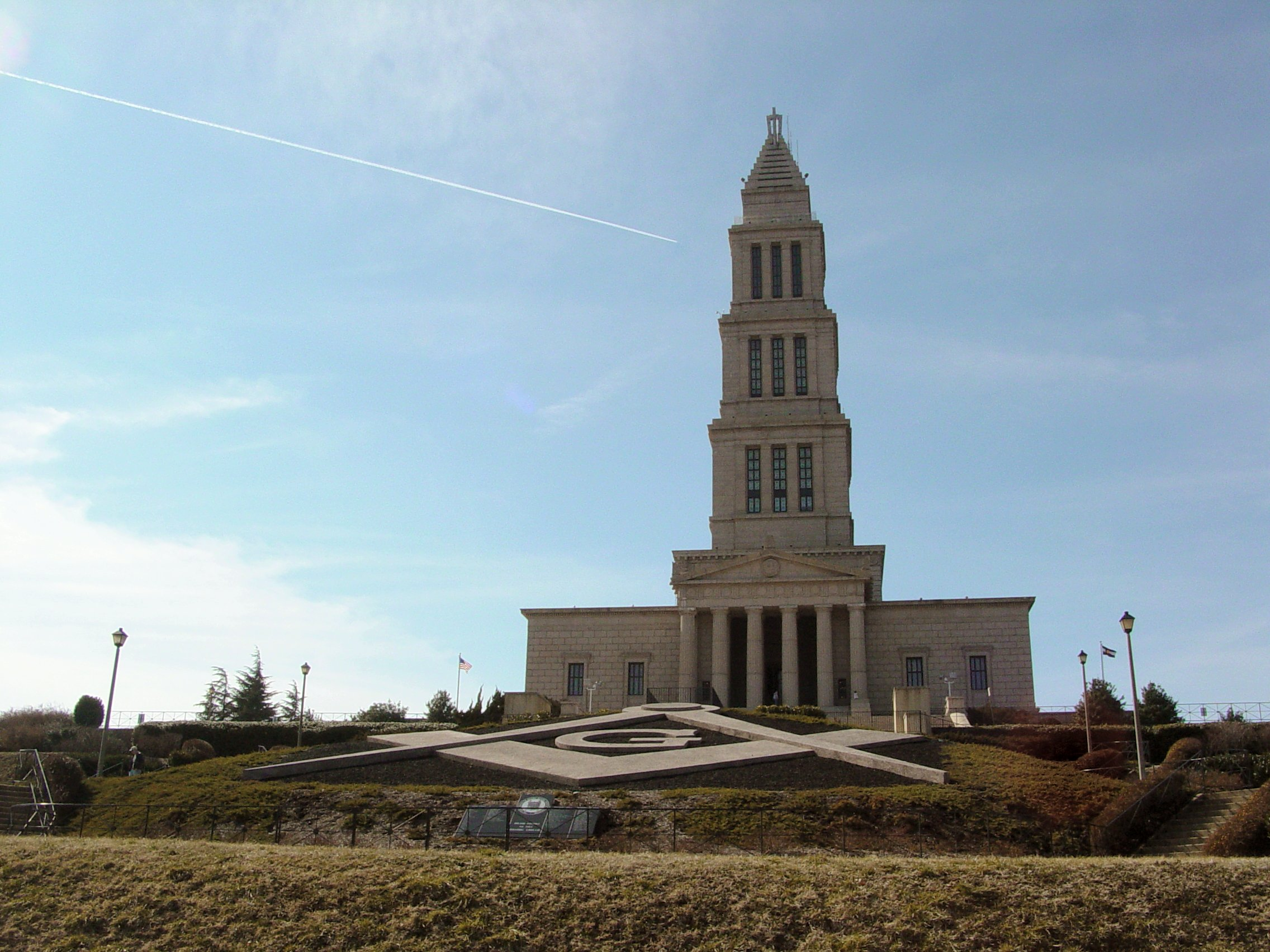 The grounds of the George Washington Masonic National Memorial. Photo by Ben Schumin on March 8, 2003.